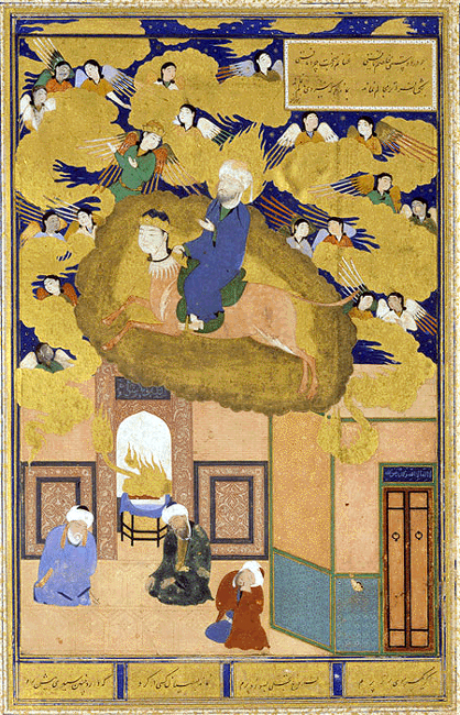 Muhammad on His Steed, Buraq Leaf from a copy of 'Bustan of Sa'di', c. 1514